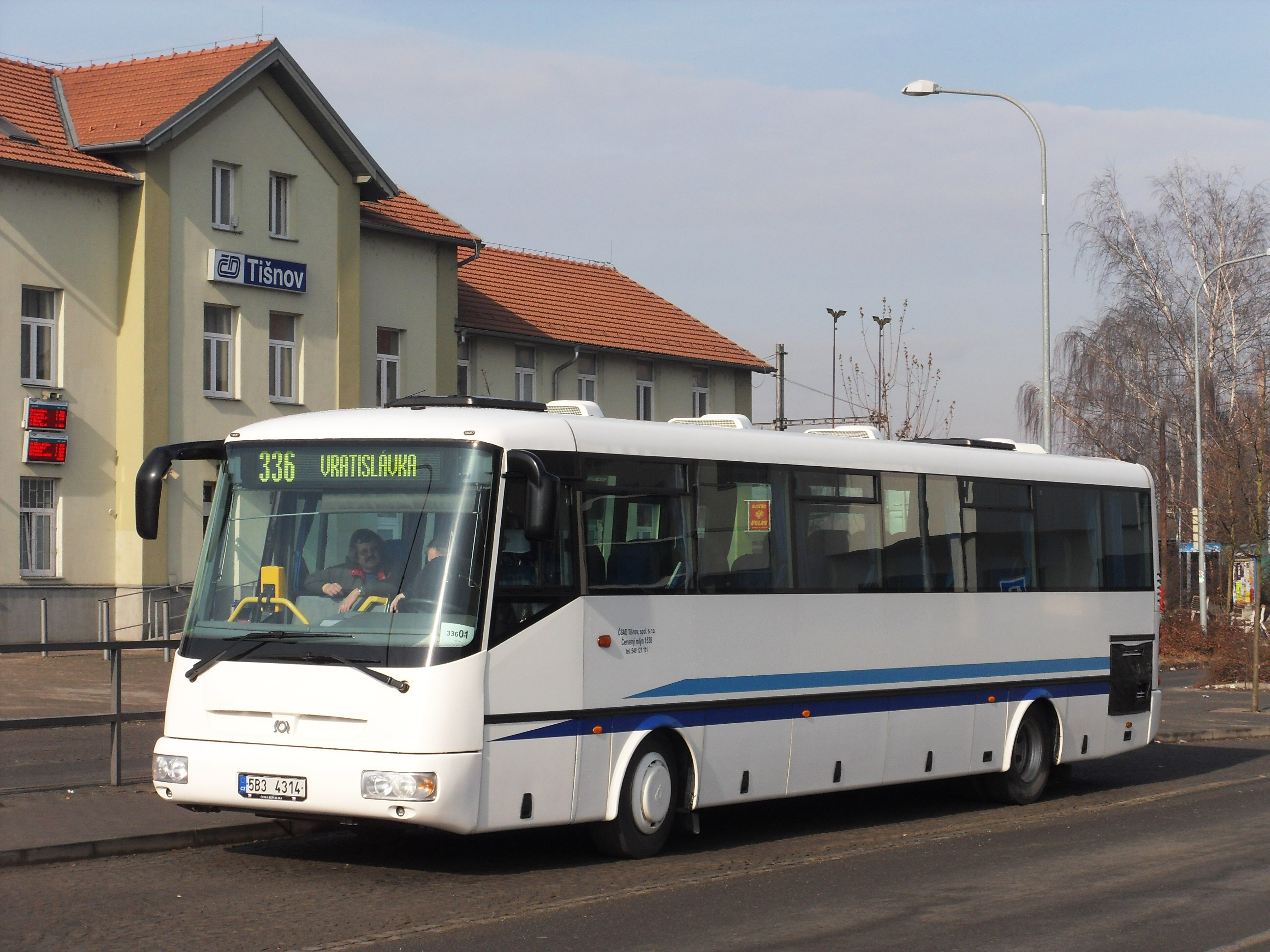 SOR C 10,5 bus of ČSAD Tišnov, Tišnov, Czech Republic